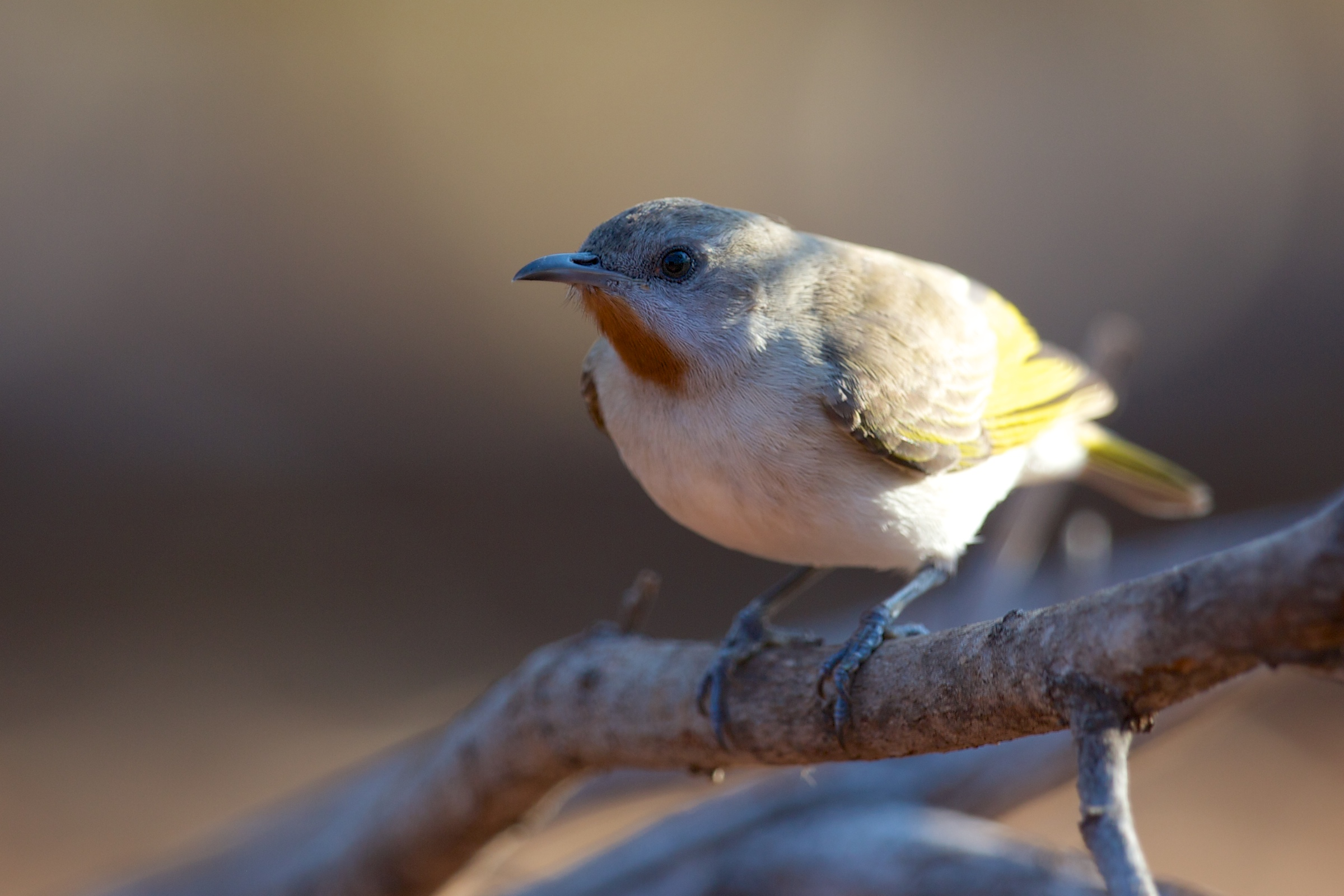 Conopophila rufogularis: Broome Bird Observatory, Kimberley, Western Australia.